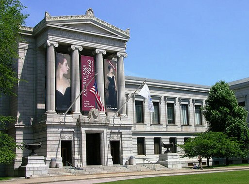 Museum of Fine Arts - Boston - Main entrance